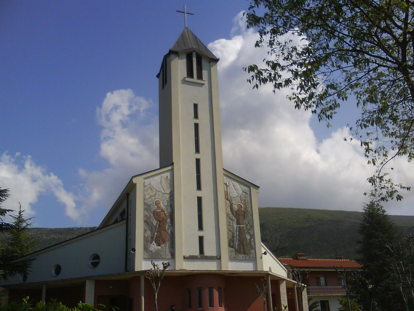 Roman catholic church of St. Stephen in Gorica, Grude